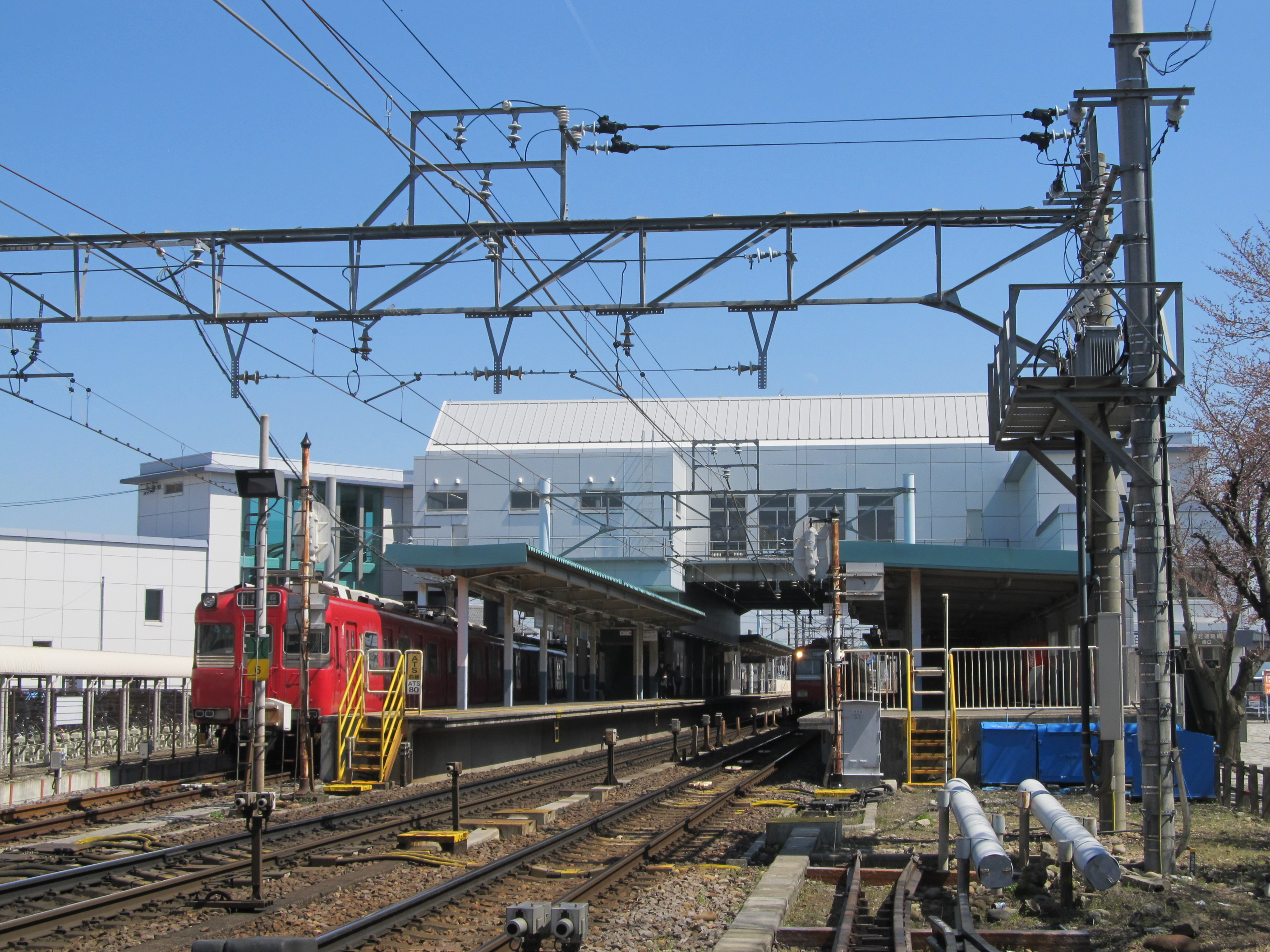 Nagoya Railroad Inuyama Line Kashiwamori Station Platform